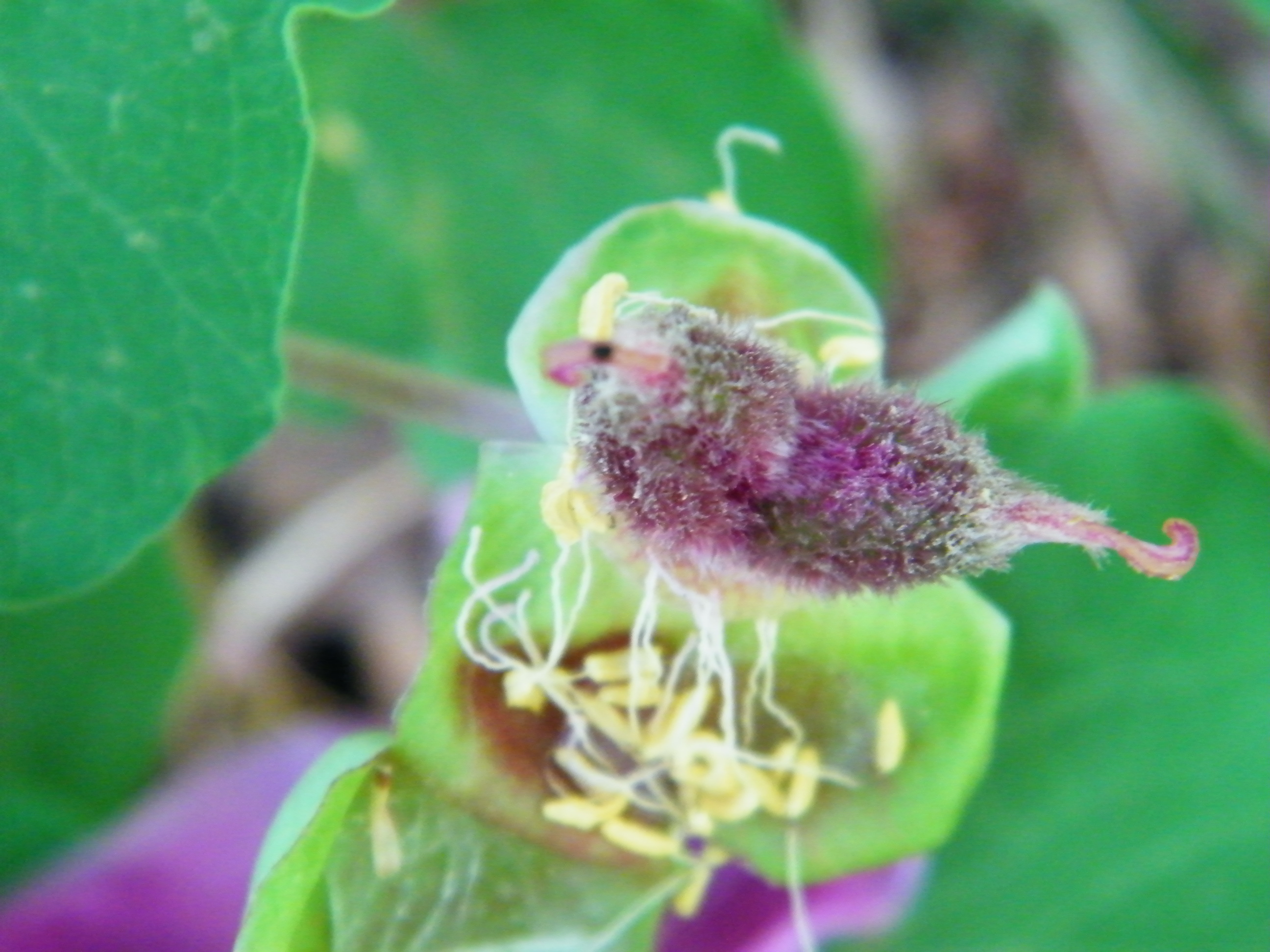 Paeonia daurica in Laspi after flowering